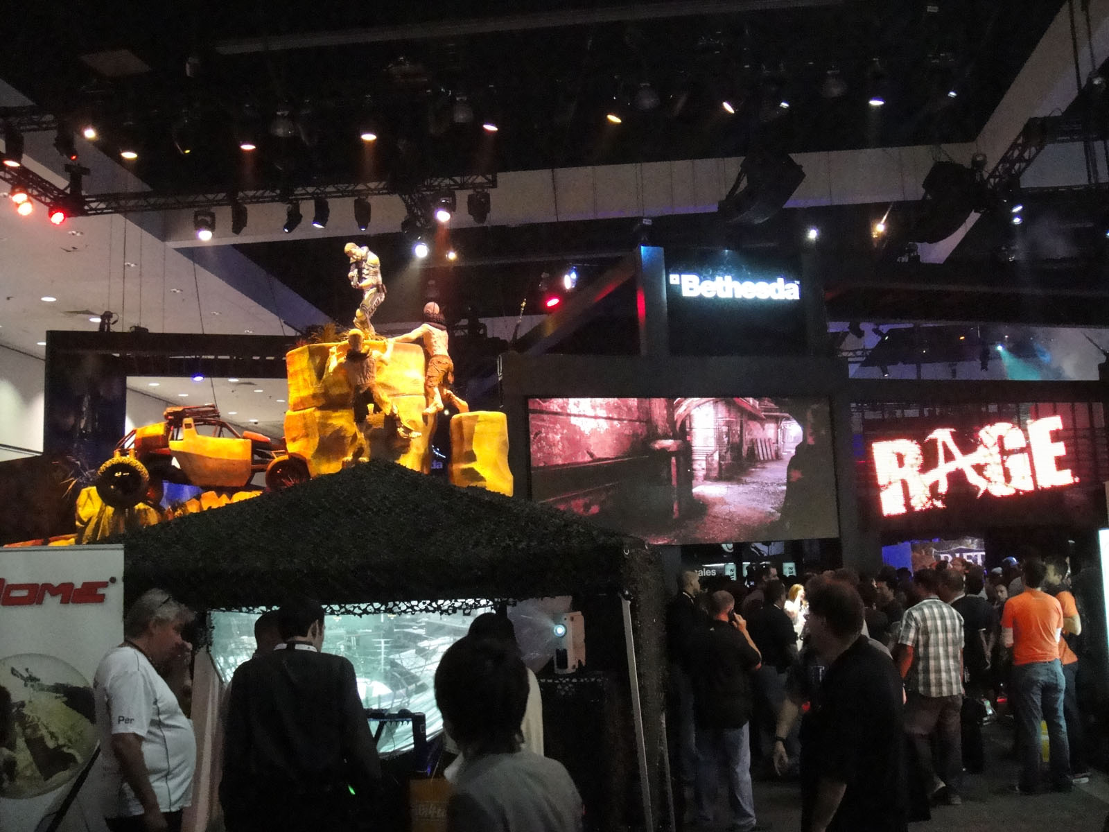 photo 2011 taken by Doug Kline If you're interested in higher resolution versions of my images, contact me via my profile page.